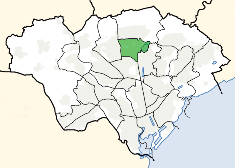 Location map showing electoral ward of Llanishen within Cardiff, Wales. It covers the communities of Llanishen and Thornhill.